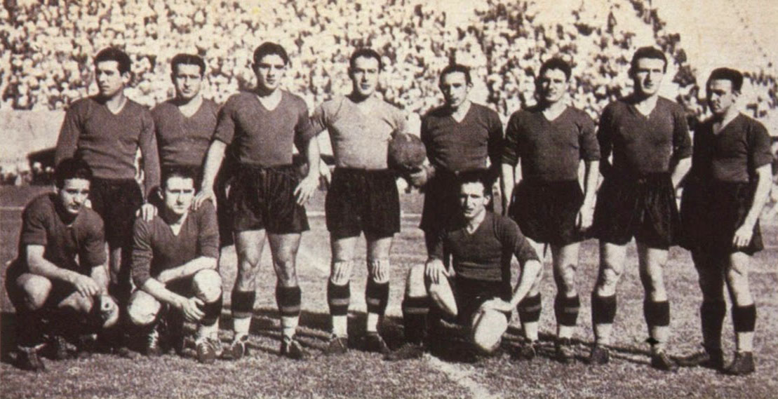 A line-up of Bologna A.G.C. in the 1935–36 season. From left to right, standing: R. Sansone, M. Andreolo, D. Fiorini, M. Gianni, C. Reguzzoni, B. Maini, M. Montesanto, F. Gasperi; crouched: F. Fedullo, A. Schiavio, G. Corsi.